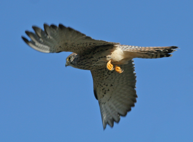 Female Lesser Kestrel in flight. Photographed by Neil Gray on 25 February 2006 near Hanover, Northern Cape, South Africa. 6